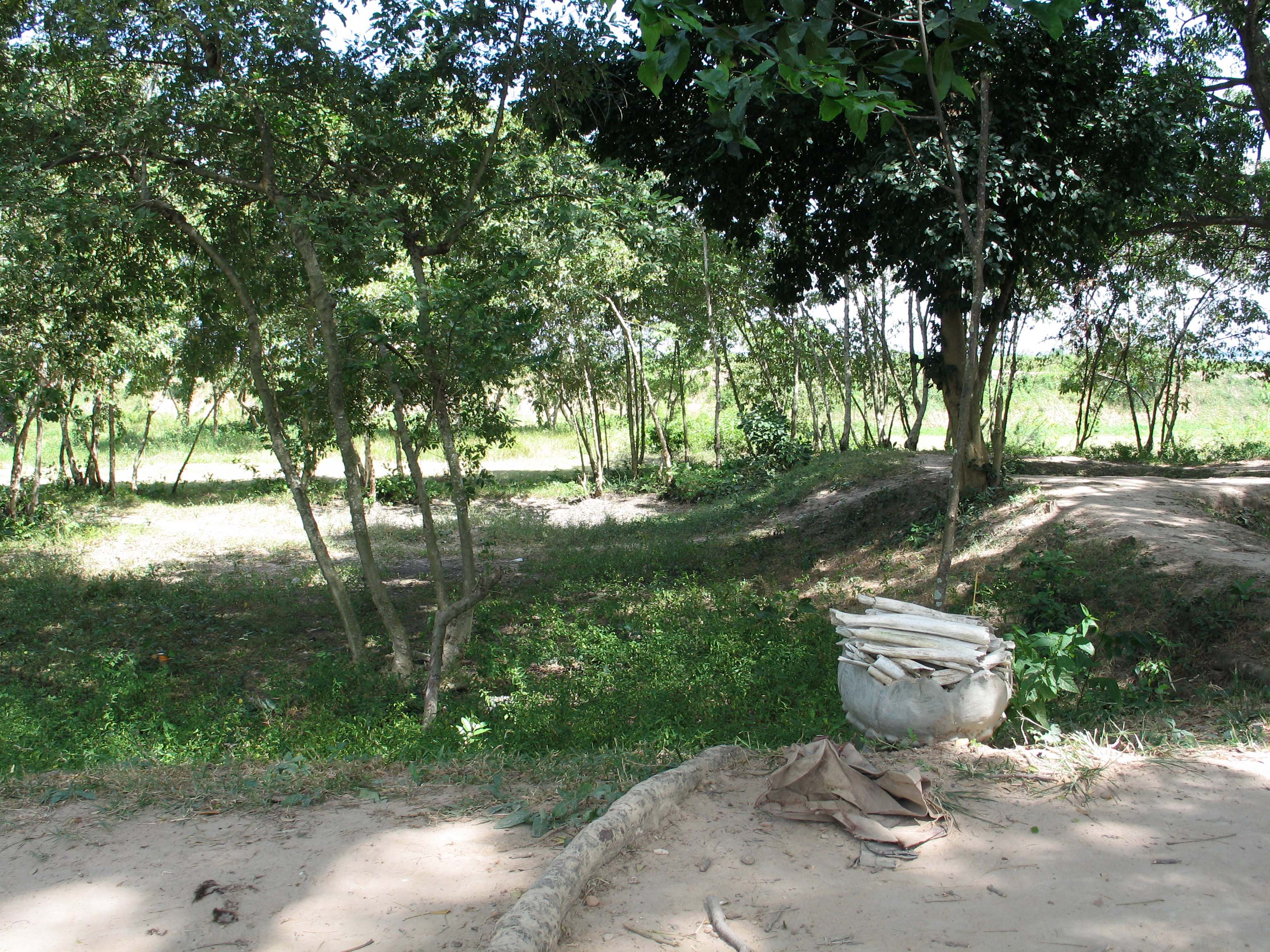 Photographed and uploaded to English Wikipedia by Michael Darter